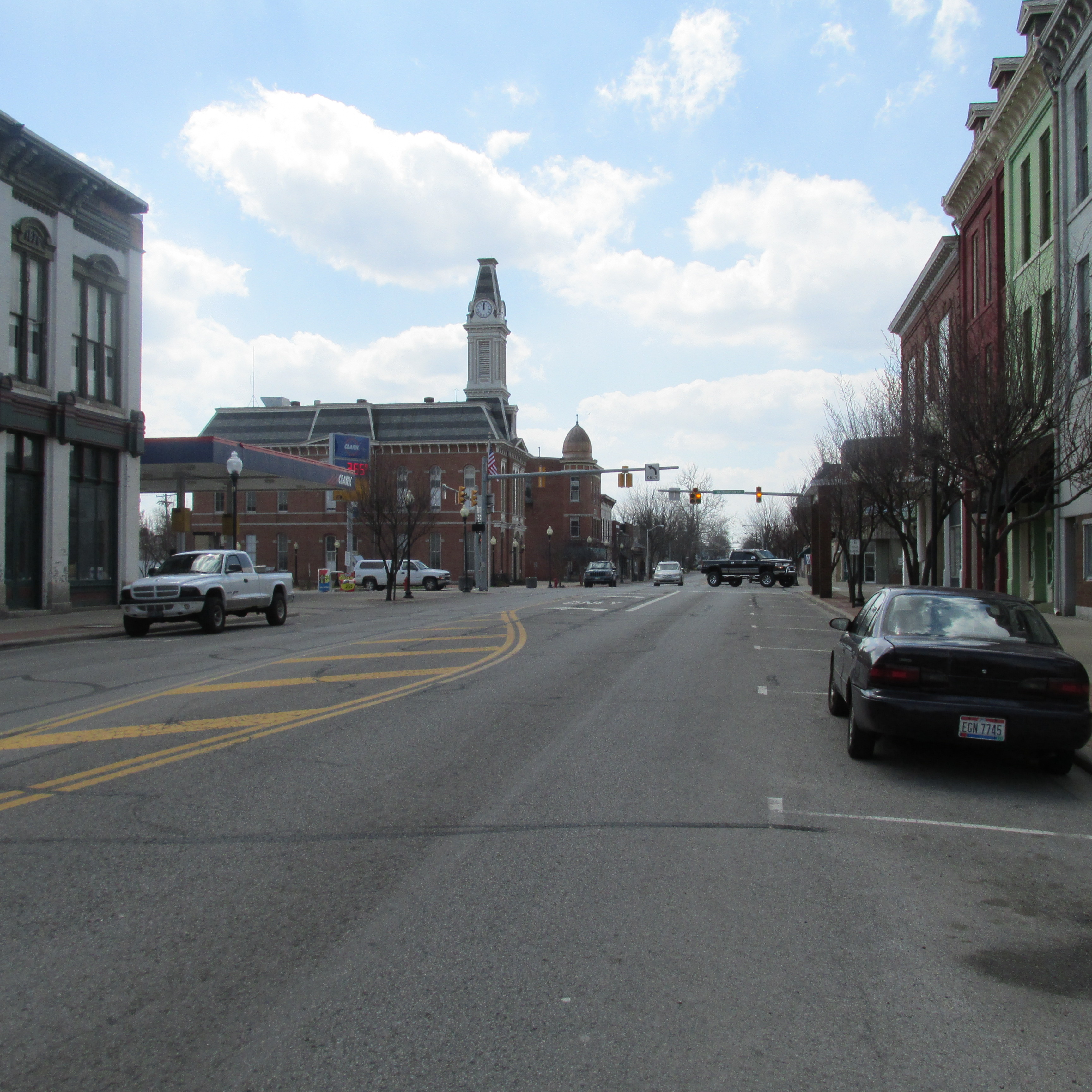 Intersection of Washington and Jefferson Streets in Greenfield, Ohio.